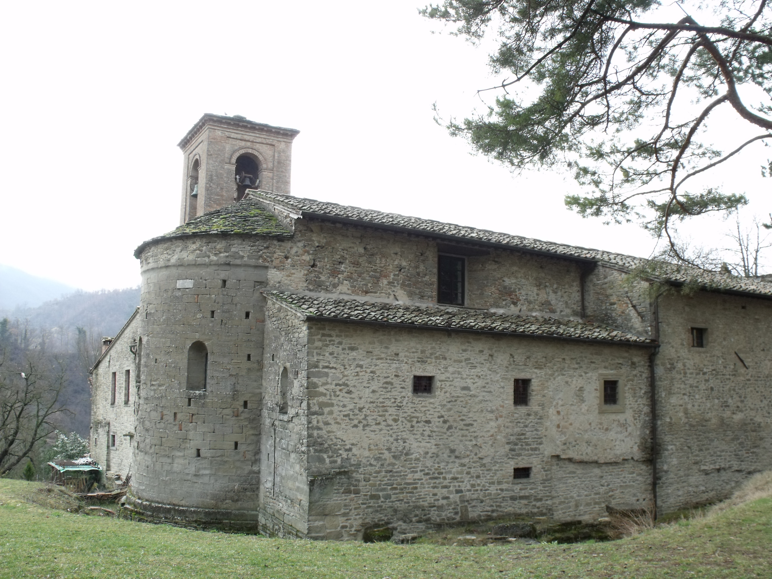 Pieve di San Pancrazio in Sestino, Province of Arezzo, Tuscany, Italy.